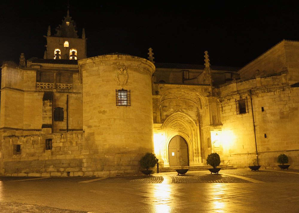 Iglesia Santa María Magdalena. Vista nocturna - Villa de Torrelaguna (Madrid)